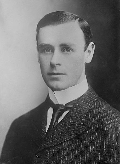 Francis Burton Harrison (1873–1957),American politician